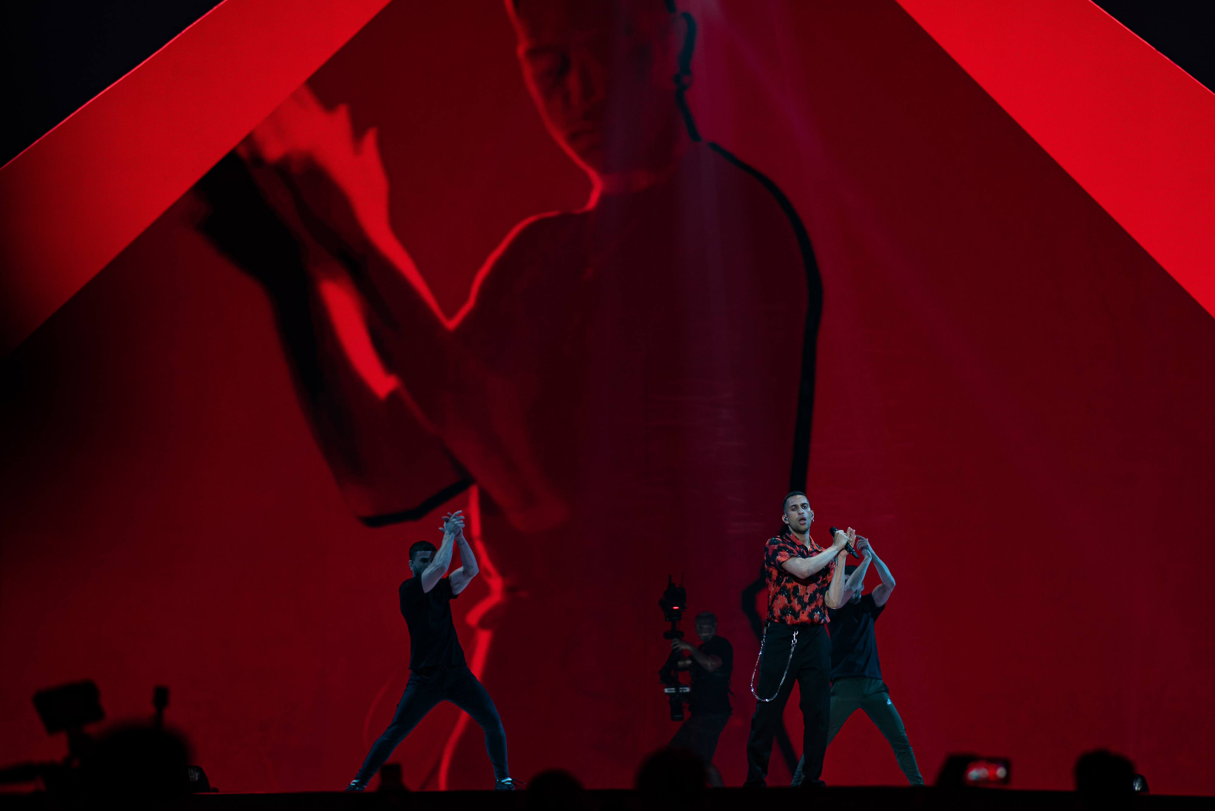 Italian singer-songwriter Mahmood at the 2019 Eurovision Song Contest Grand Final Dress Rehearsal.